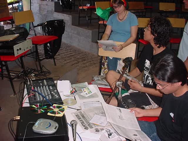 Indymedia Cuiabá in Free Radio SBPC, 2004. Mato Grosso Federal University, Cuiaba, Brazil.